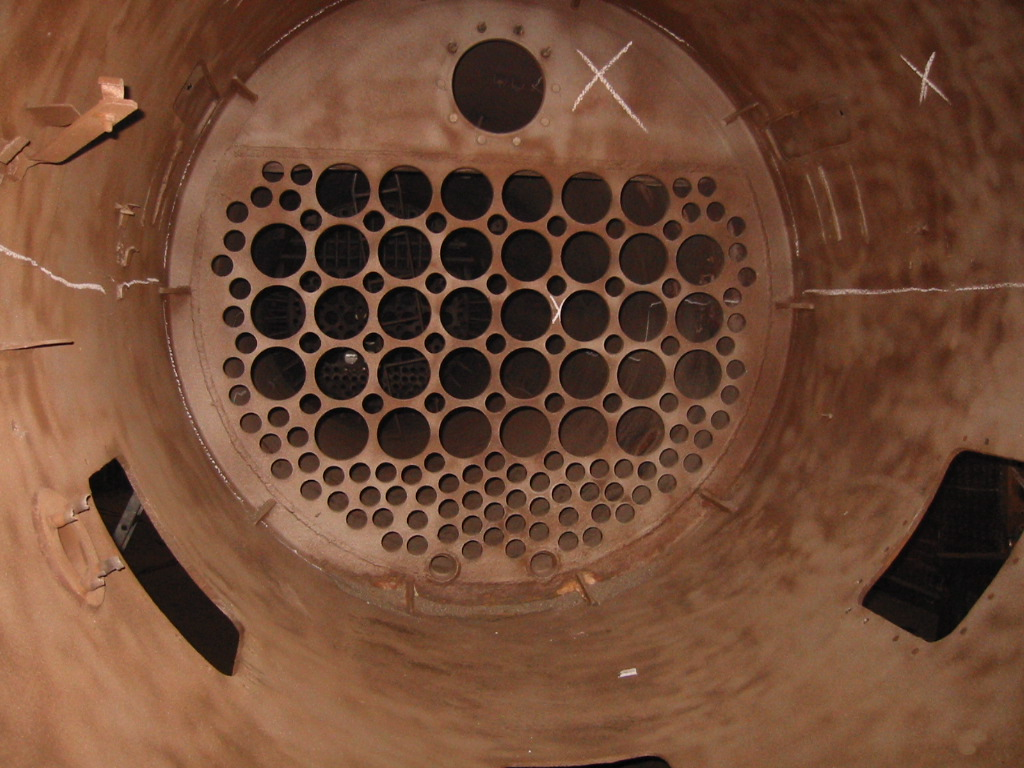 Smokebox tube sheet of a reconstructed 39E boiler